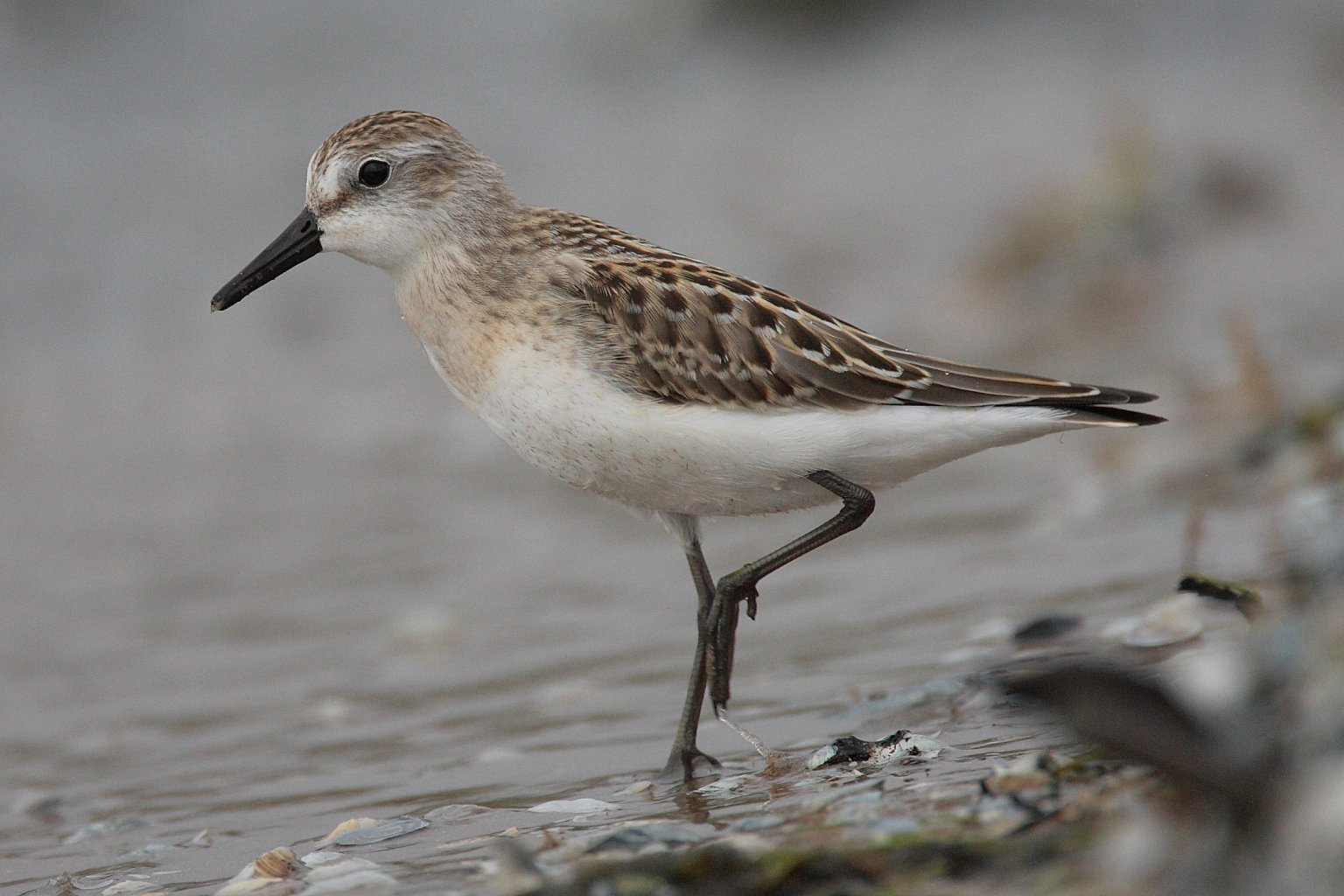 Semipalmated Sandpiper -- Cobourg, Ontario, Canada -- 2006 August